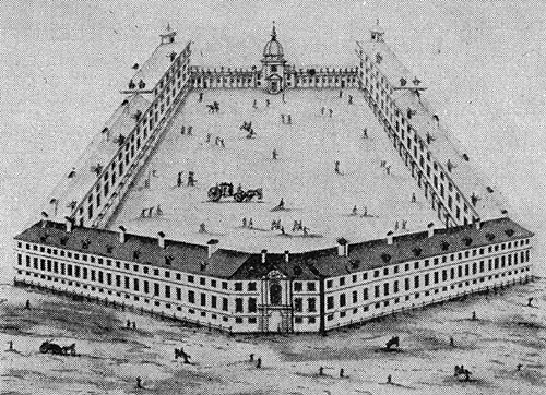 Marywil Palace complex in Warsaw